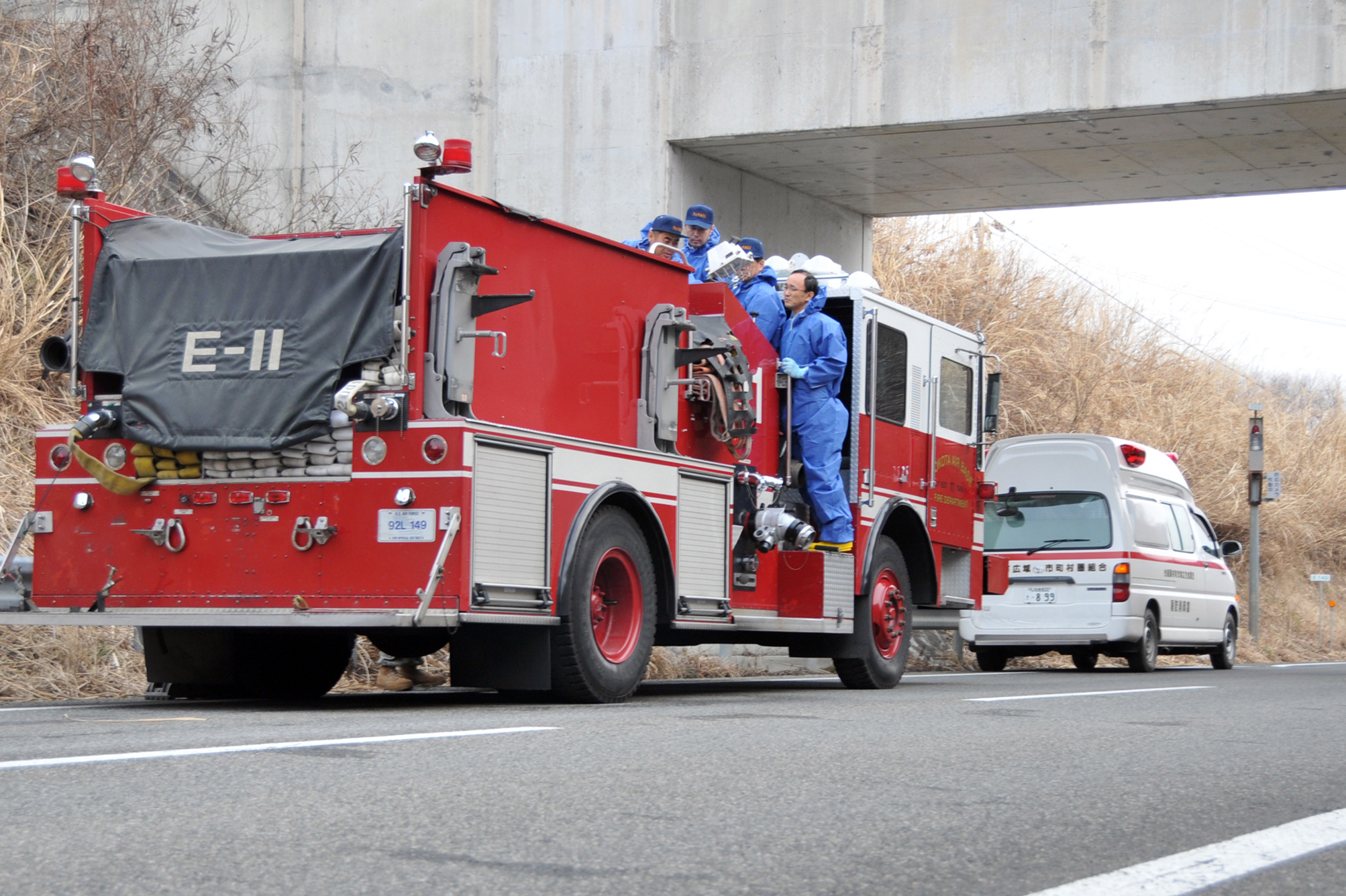 Japanese firefighters in Fukushima examine the control systems on a fire truck March 15, 2011, delivered to them from Yokota Air Base, Japan. The truck will be used to assist with recovery efforts in northern Japan following the earthquake and tsunami March 11. (U.S. Air Force/Airman 1st Class Andrea Salazar)